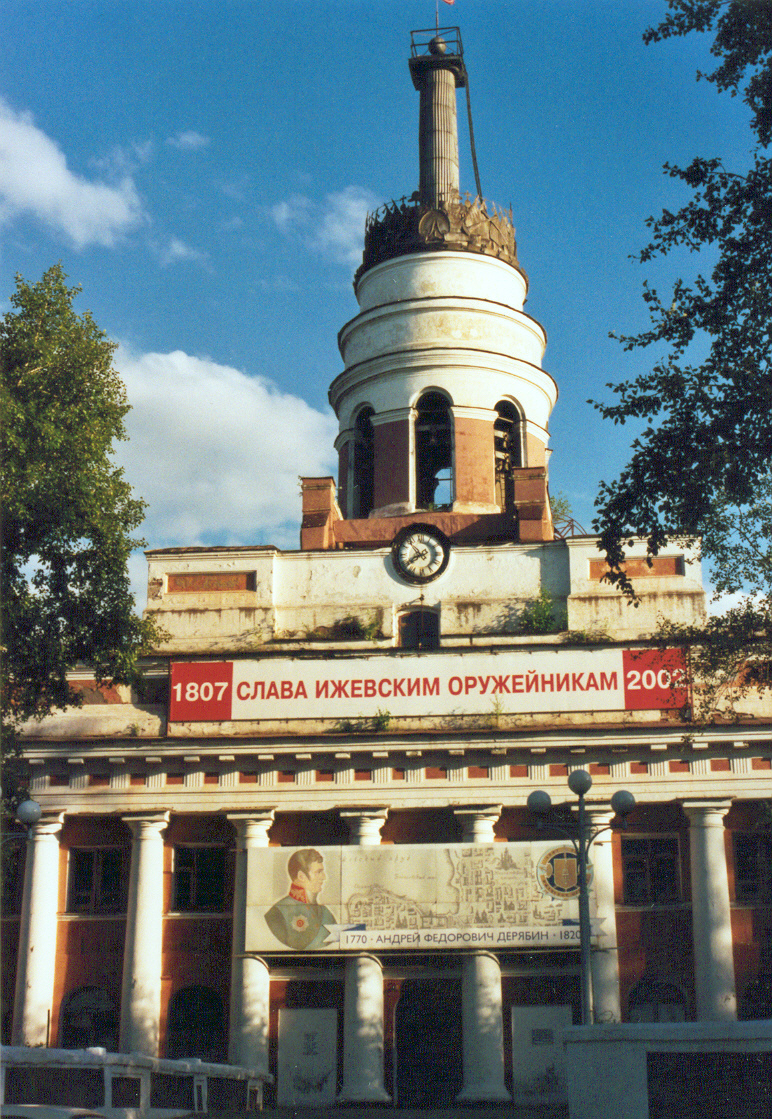 Entrance of the gun factory in Izhevsk.